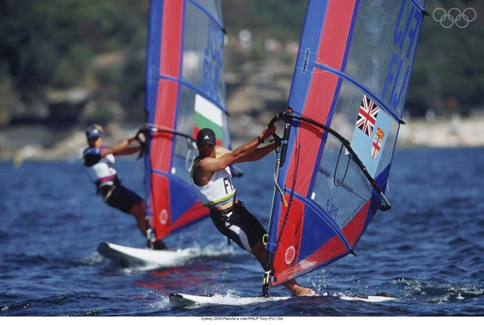 Tony Philp Wind Surfing